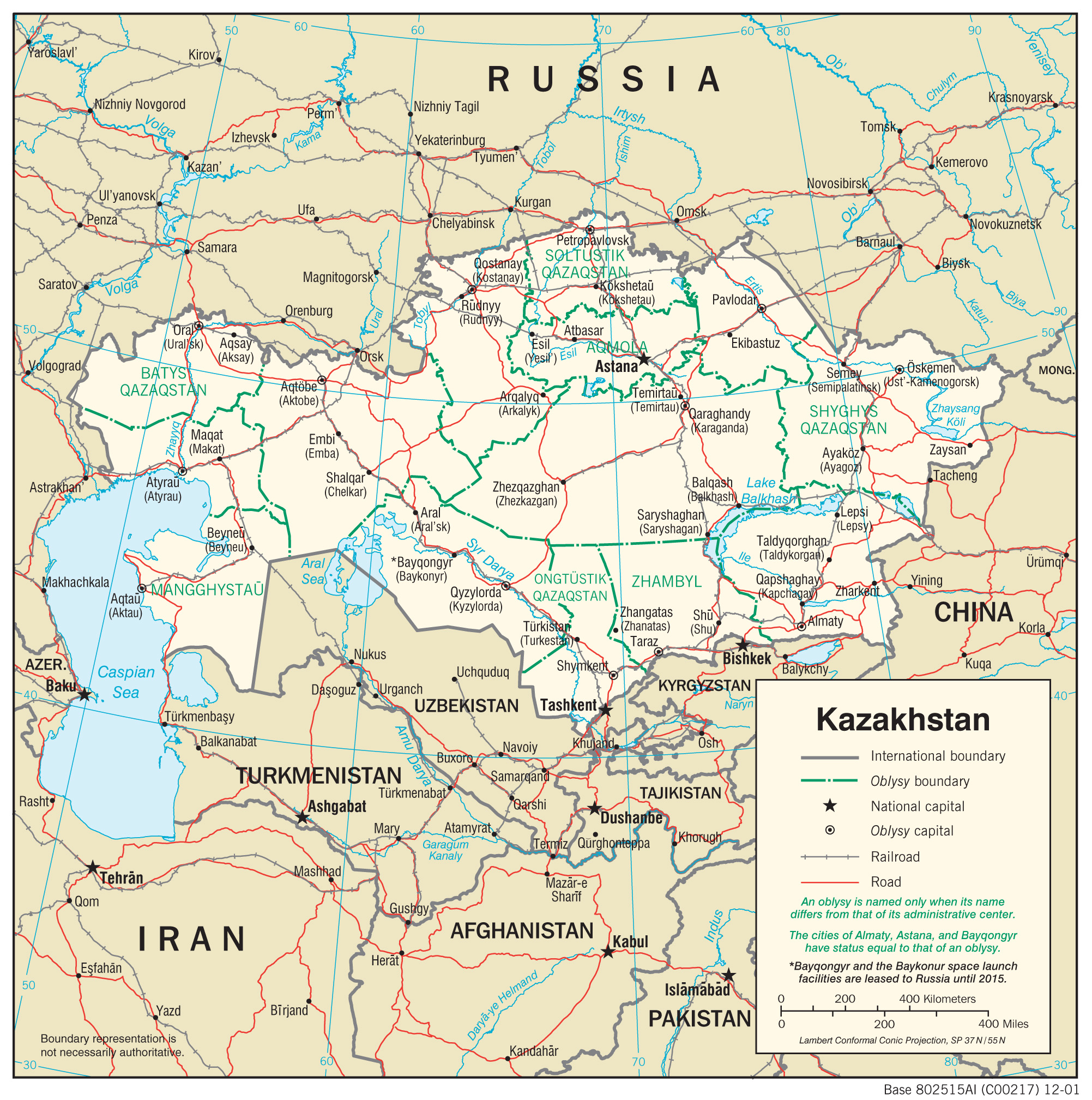 Transport system in Kazakhstan, 2001.